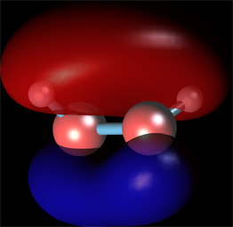 Molecular orbital of the hydrogen peroxide (#5) calculated by Extended Huckel method, ViewMol3D program